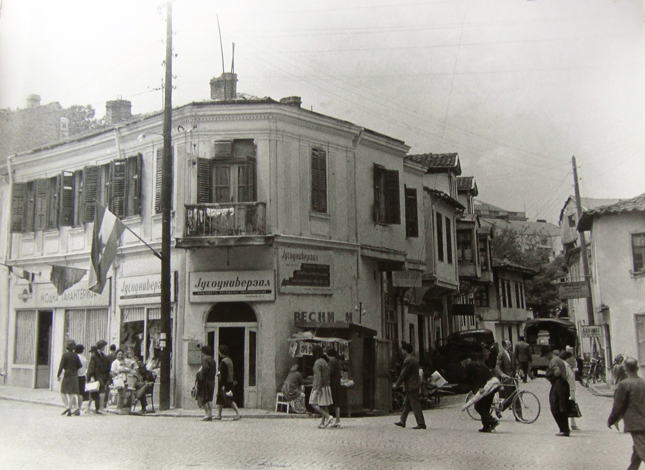 Jewish neighborhood, street Marshal Tito This media file is produced by Wikipedian in Residence in Category:Wikipedian in Residence at DARM in 2016.